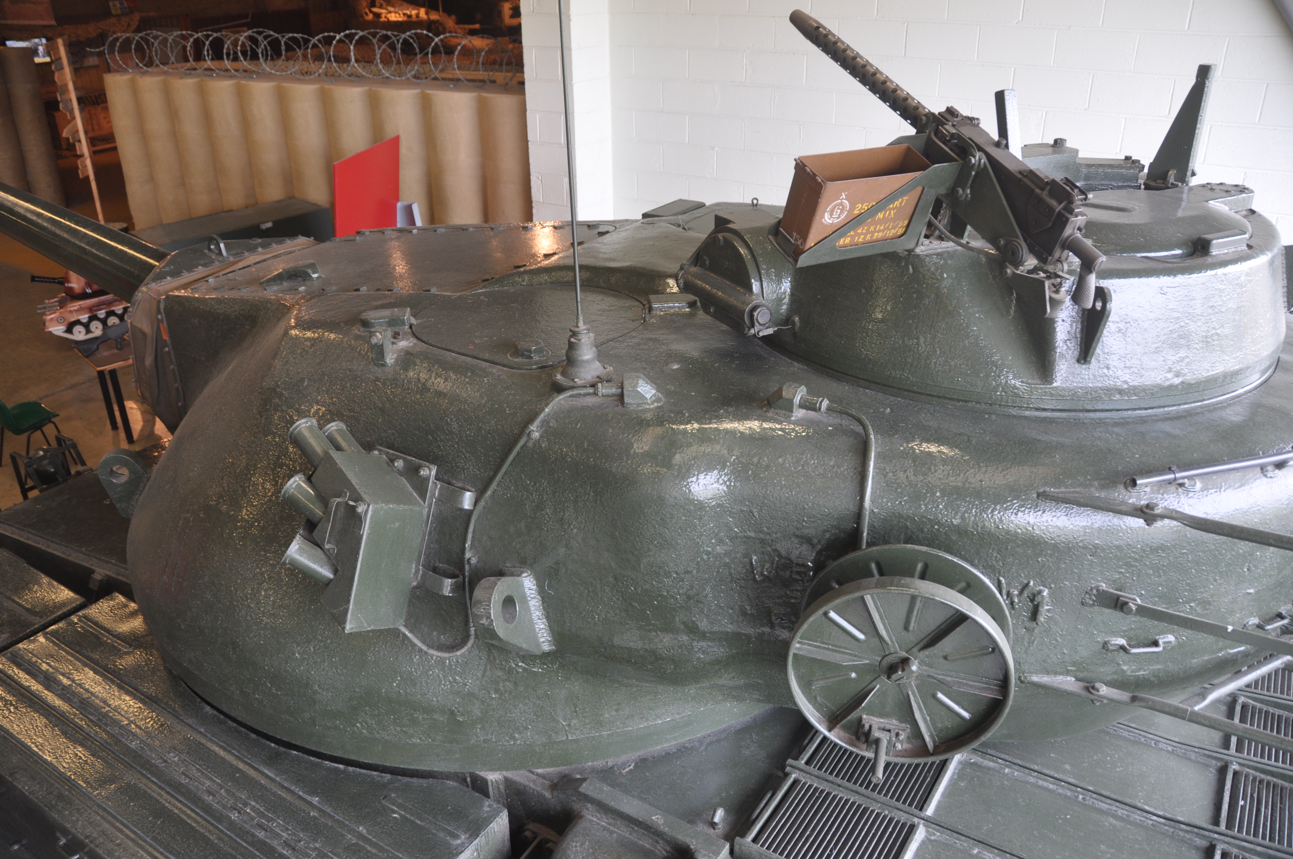 The Tank Museum